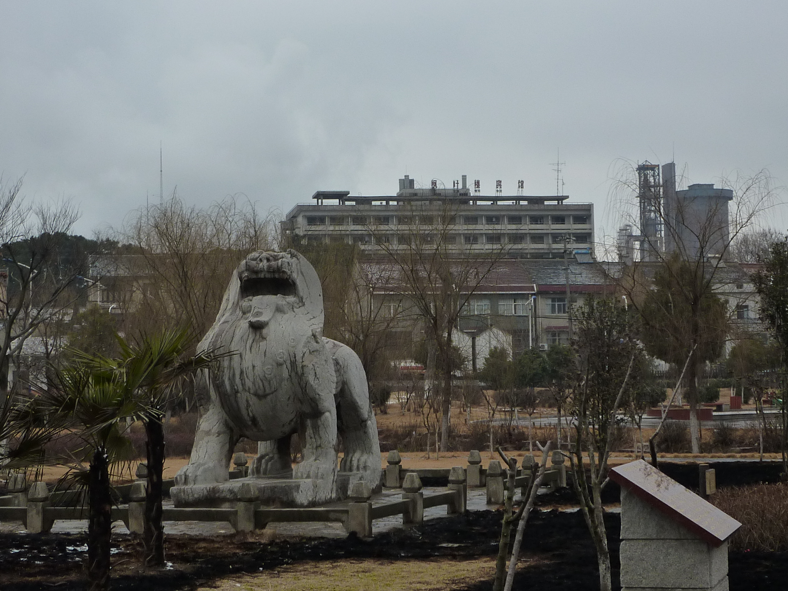 The eastern bixie at the tomb of Xiao Hui. Seen from the west, against Ganjiaxiang's industrial landscape.